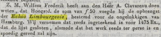 Krantenknipsel uit Algemeen Handelsblad, 27 juni 1842, m.b.t. steunactie voor slachtoffer van de grote brand in Hamburg (gift van kroonprins Willem Frederik).